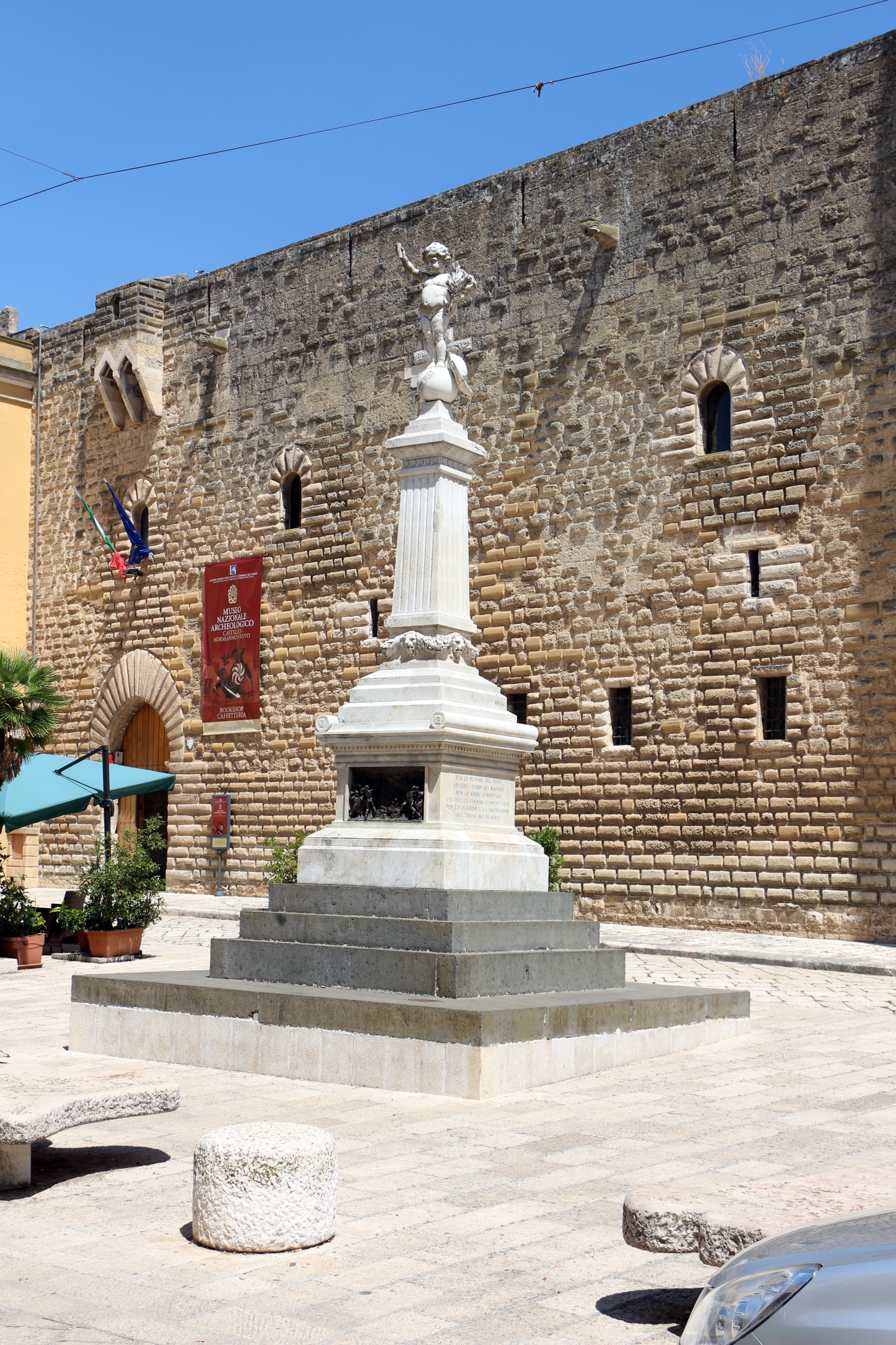 Castello normanno-svevo (Gioia del Colle)